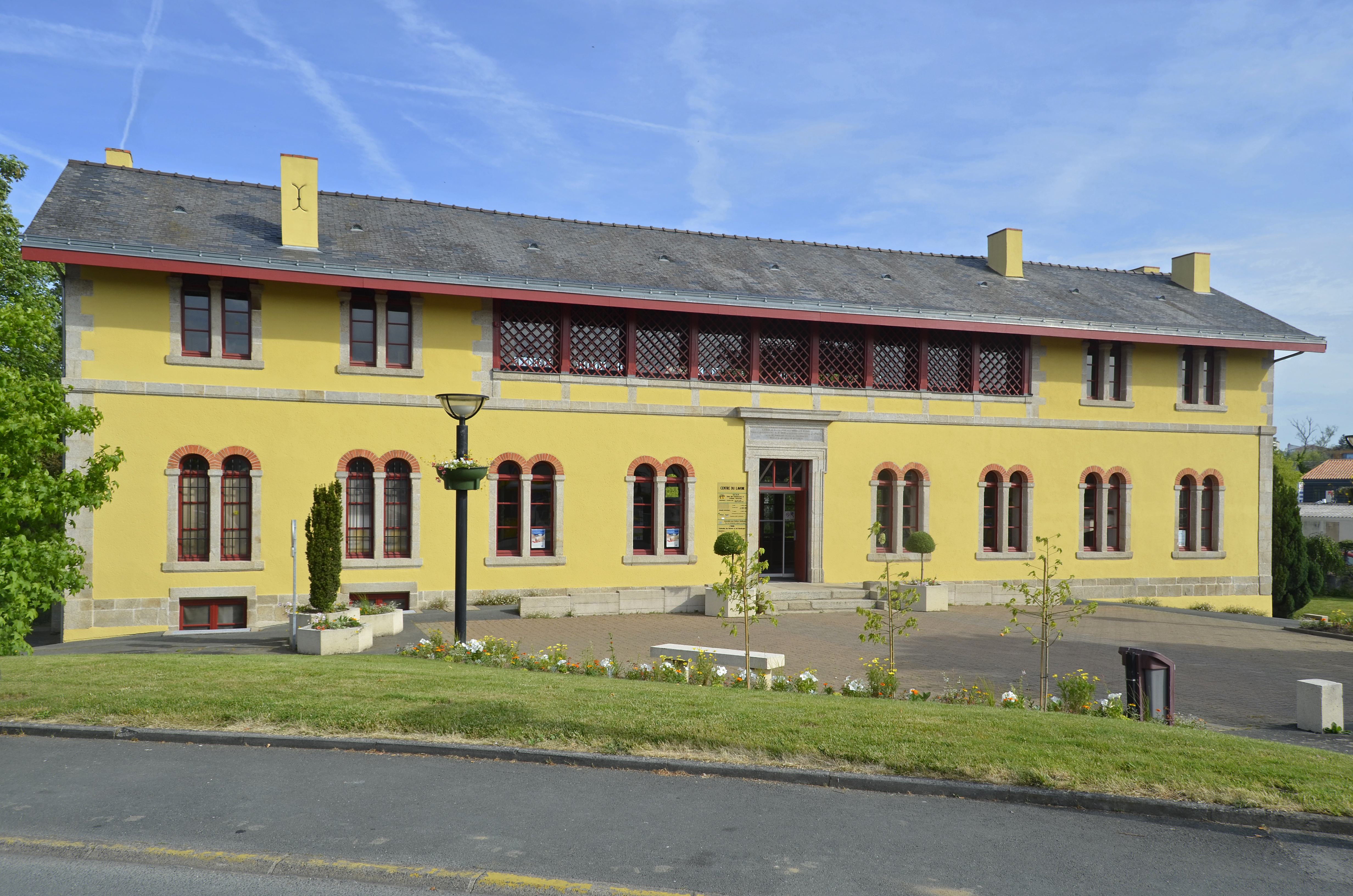 Lavoirs and public baths in Les Herbiers - Vendée, France .